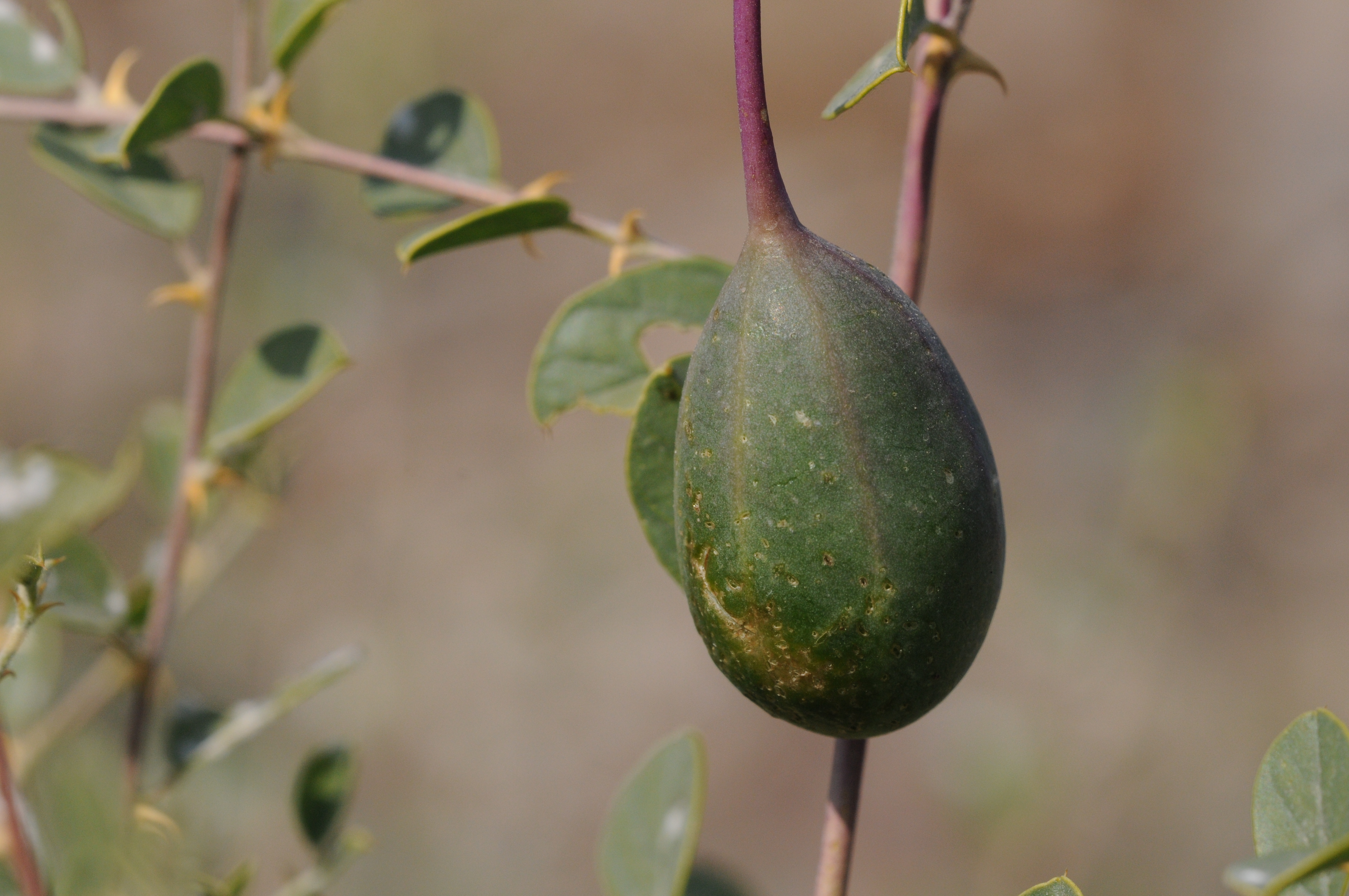 View of a fresh fruit of Palestine caper (Capparis ovata DESF var. palaestina ZOHARY). Birecik, Sanliurfa - Turkey. 330 m.